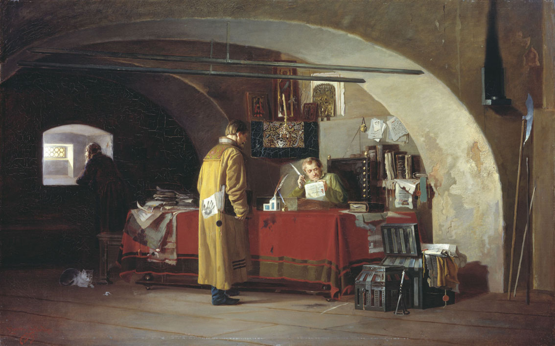 A prikaz in Moscow